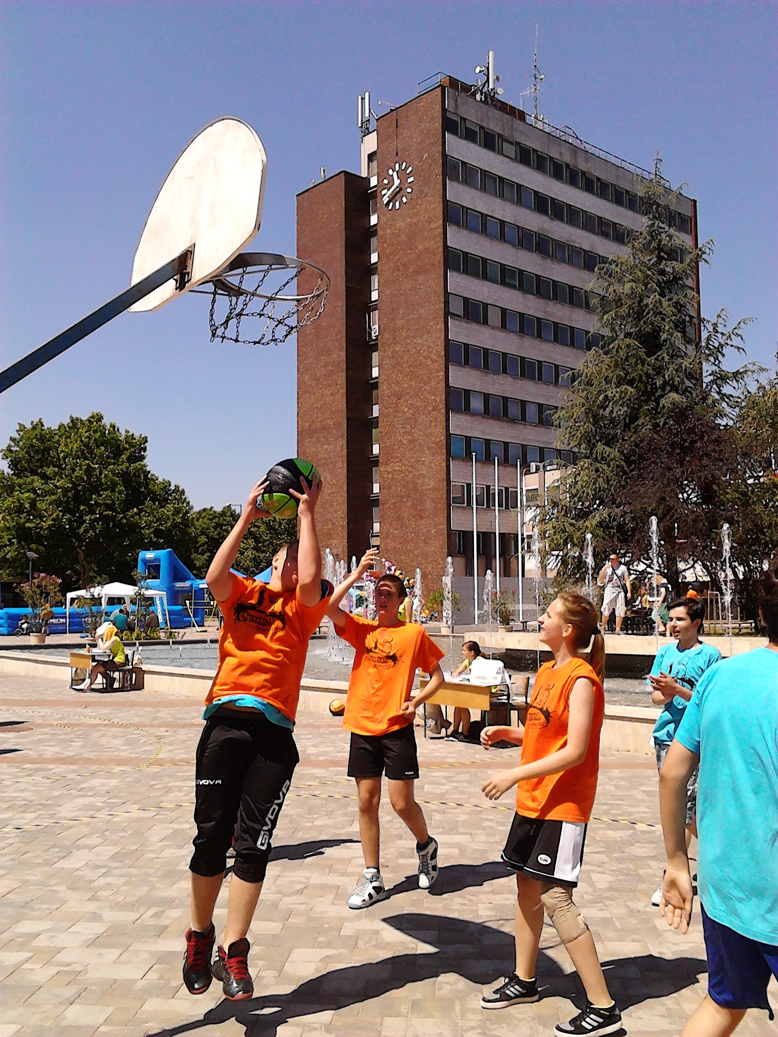 Dunaujvaros Happening